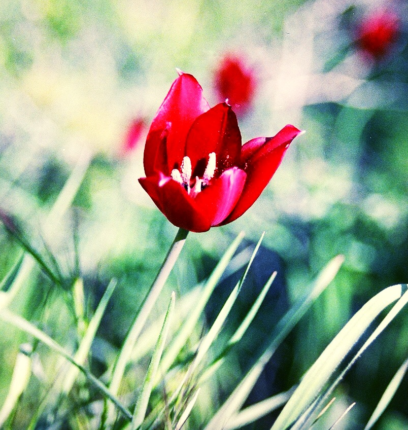 Kıbrıs lalesi (Tulipa cypria)